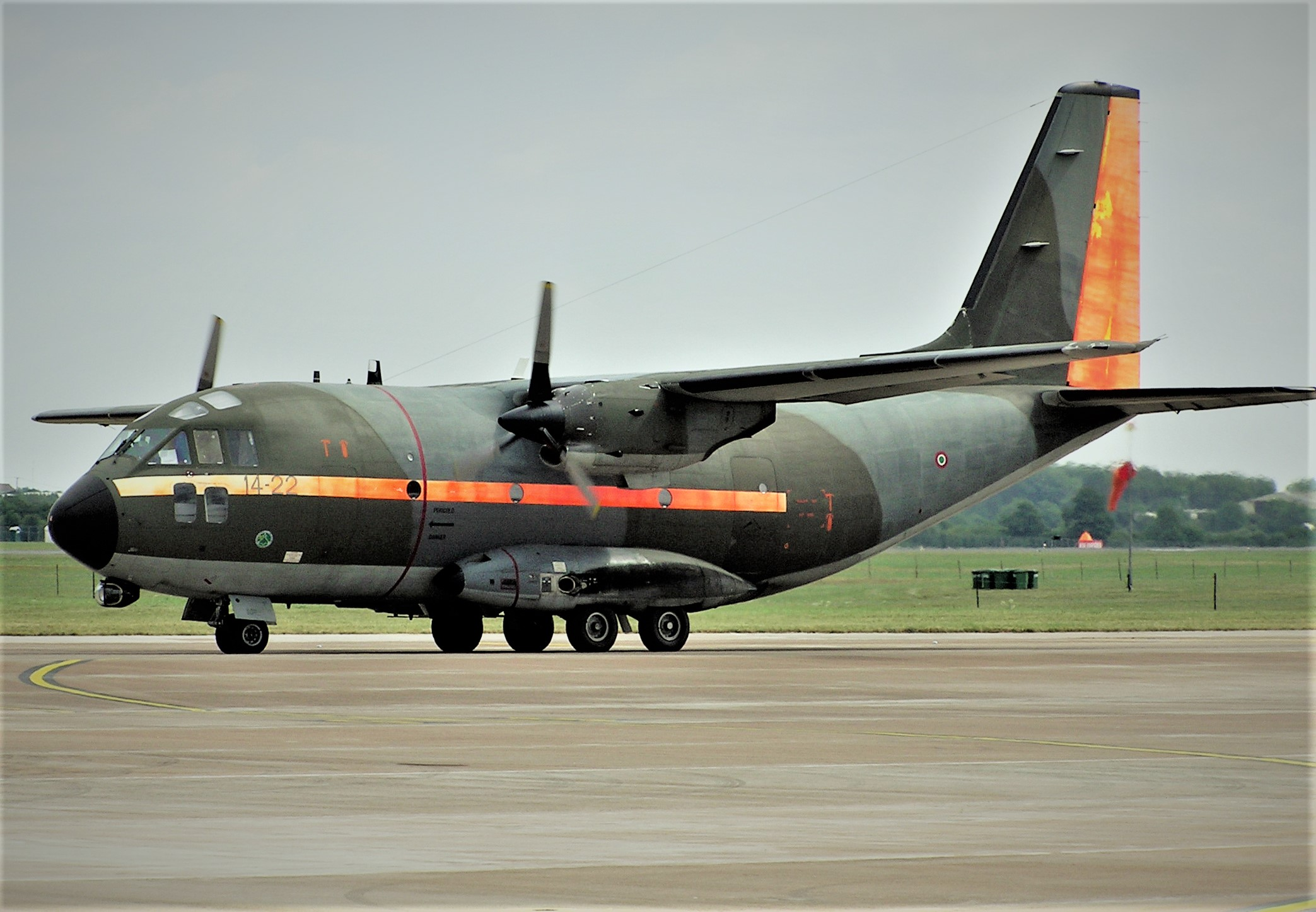 Italian Air Force Alenia G222RM taxying at the Royal International Air Tattoo, Fairford, Gloucestershire, England. Photographed by Adrian Pingstone in July 2005 and released to the public domain.